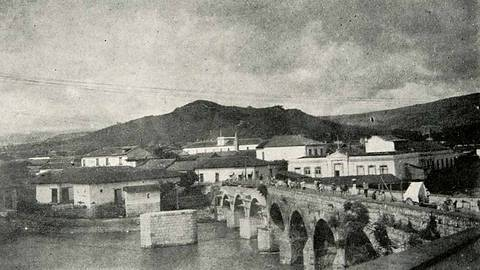 Bridge over River Choluteca in Tegucigalpa